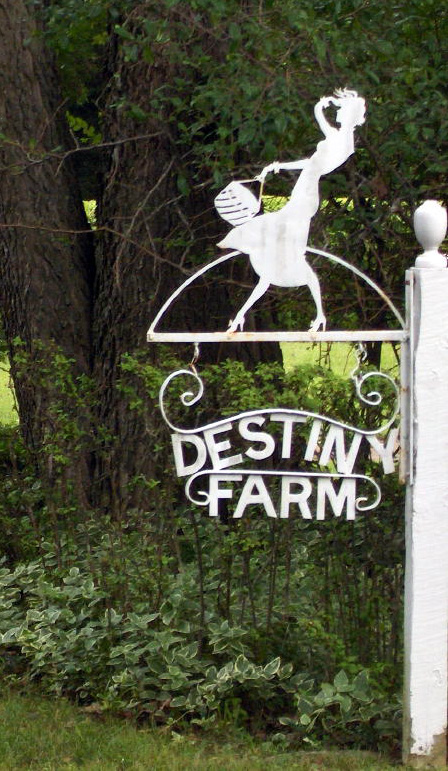 Sign designed by Irene Castle for the Destiny Farm property in Eureka Springs, Arkansas, where the dancer lived from 1954-1969.